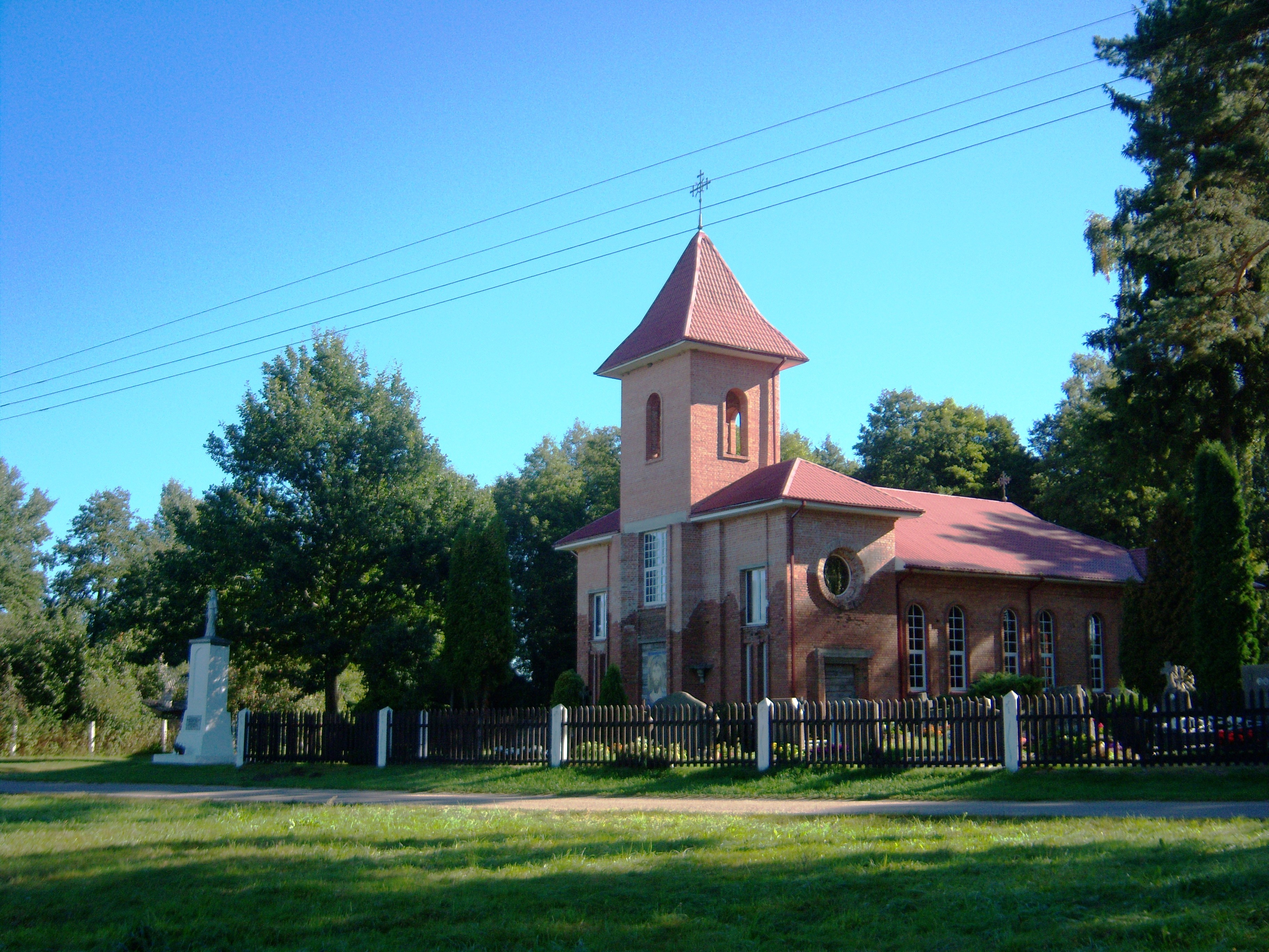 Catholic church in Sutkai (new), Šakiai District, Lithuania